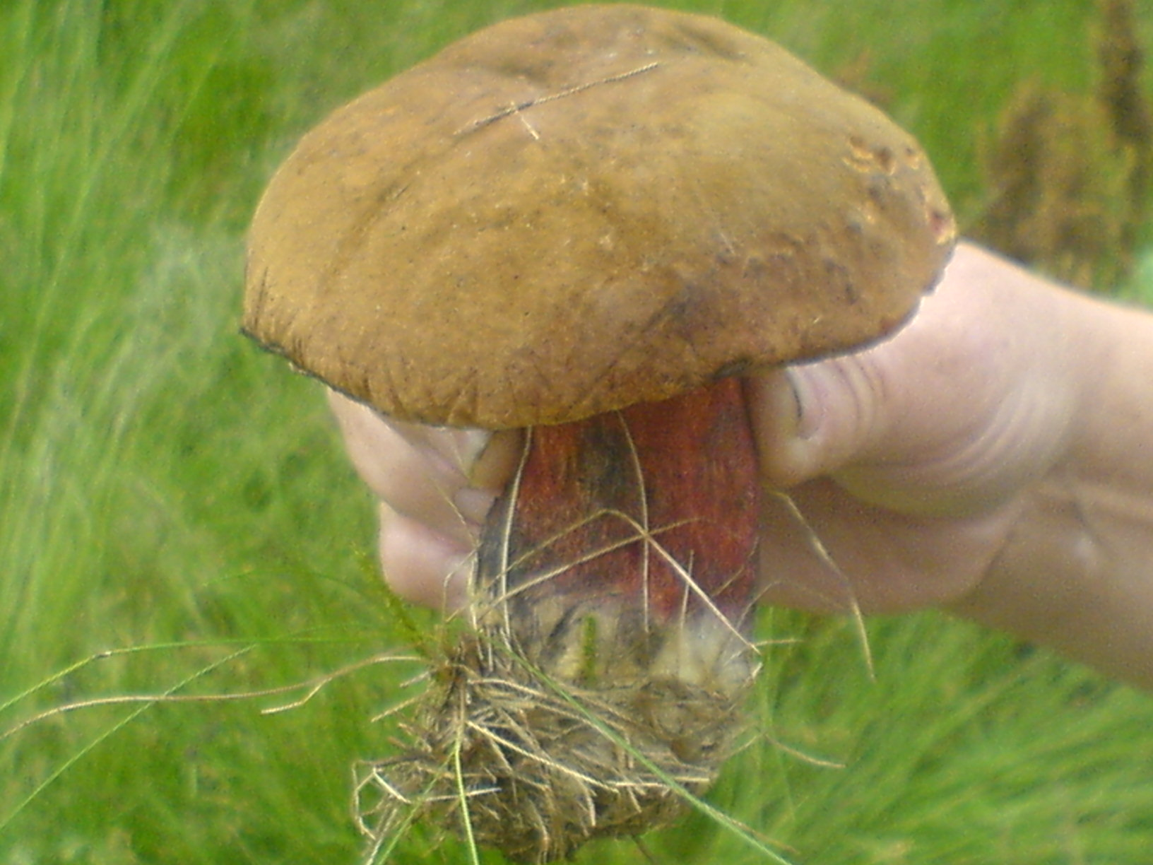 Neoboletus luridiformis - syn: Boletus erythropus in Parâng Mountains group, Transylvania.